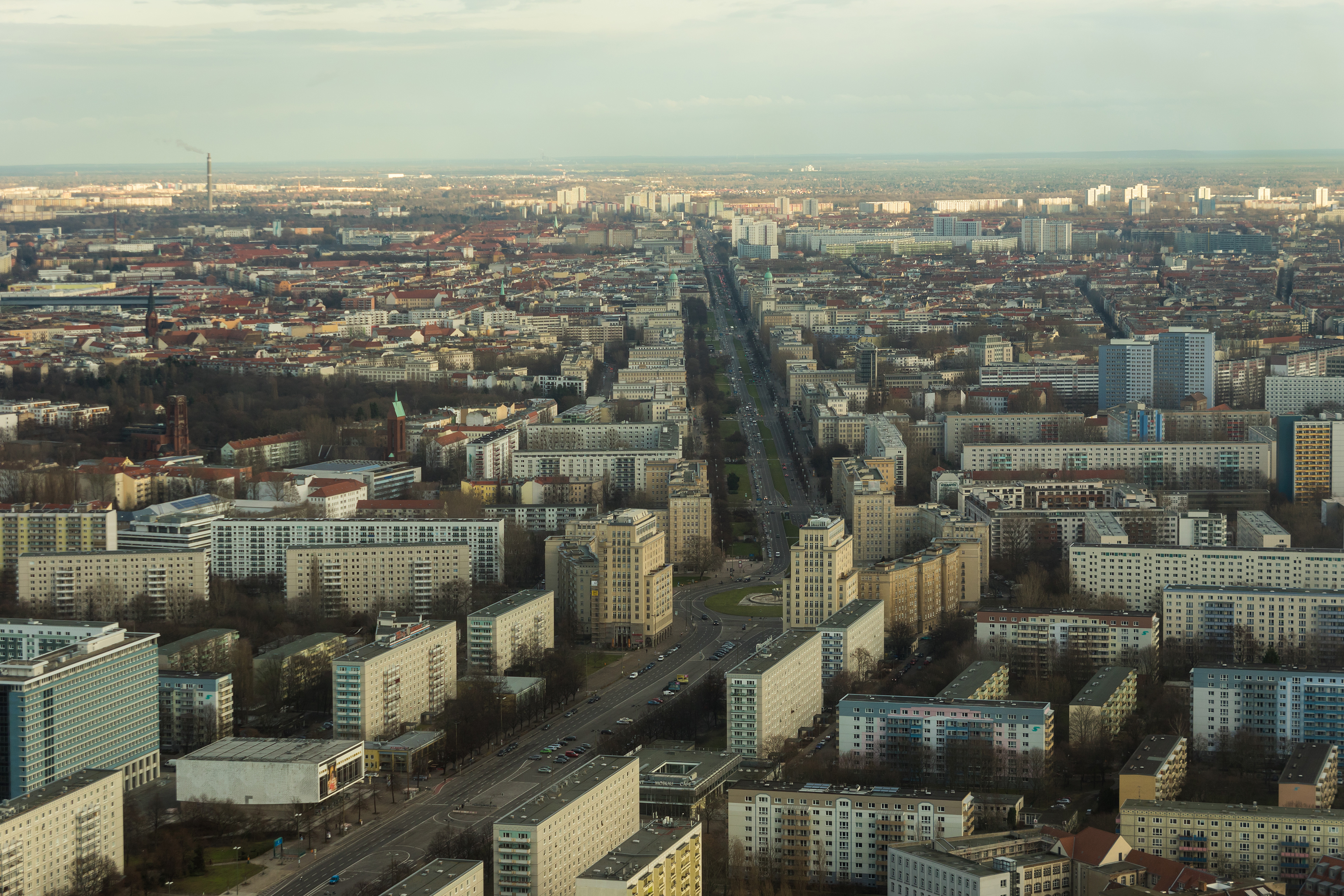 View from Berlin TV Tower to Karl-Marx-Allee